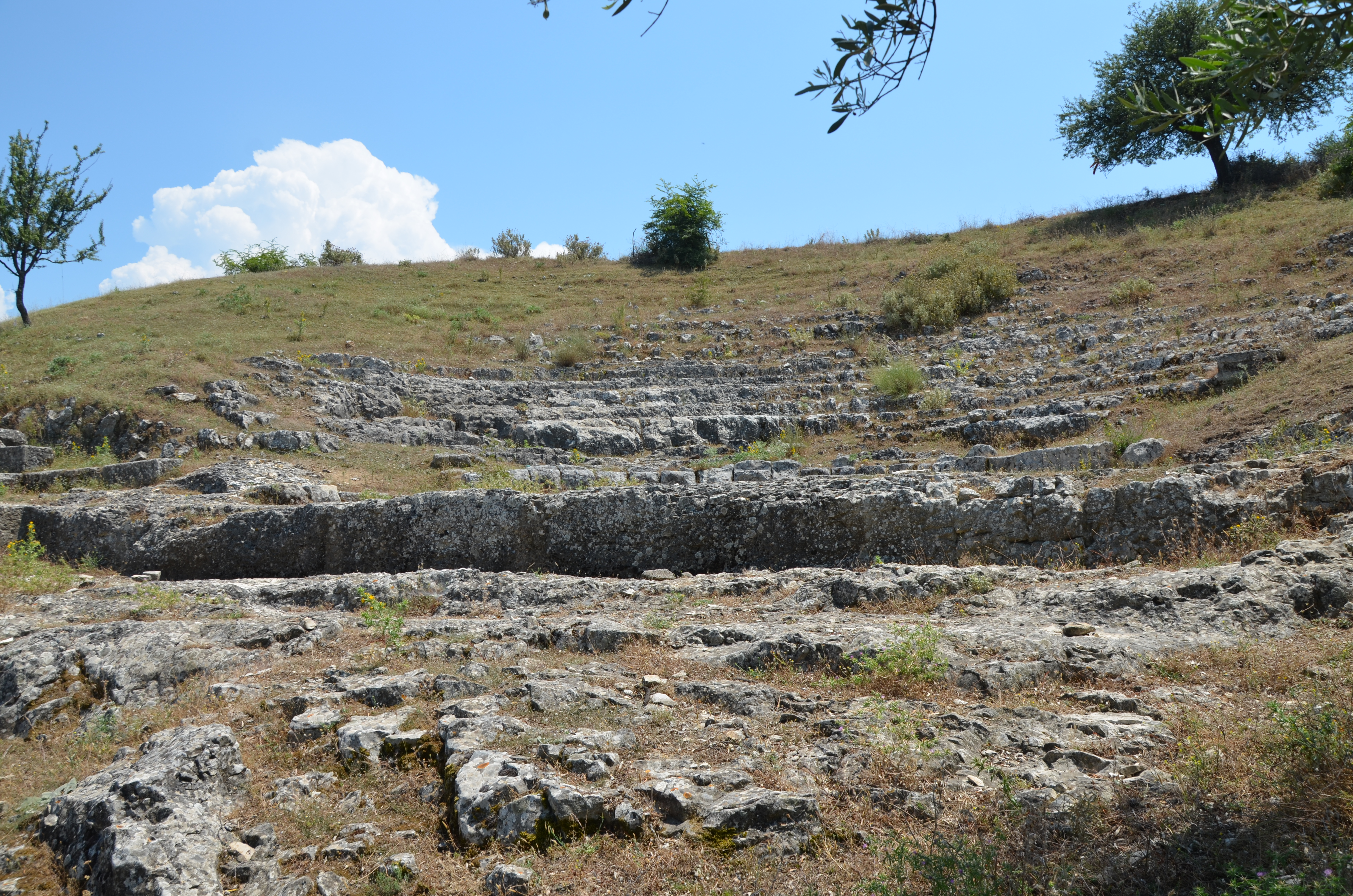 The Greek Theatre of Nikaia built in the 3rd century BC, with 17 rows of seats it had a capacity of approximately 900 spectators, Illyria